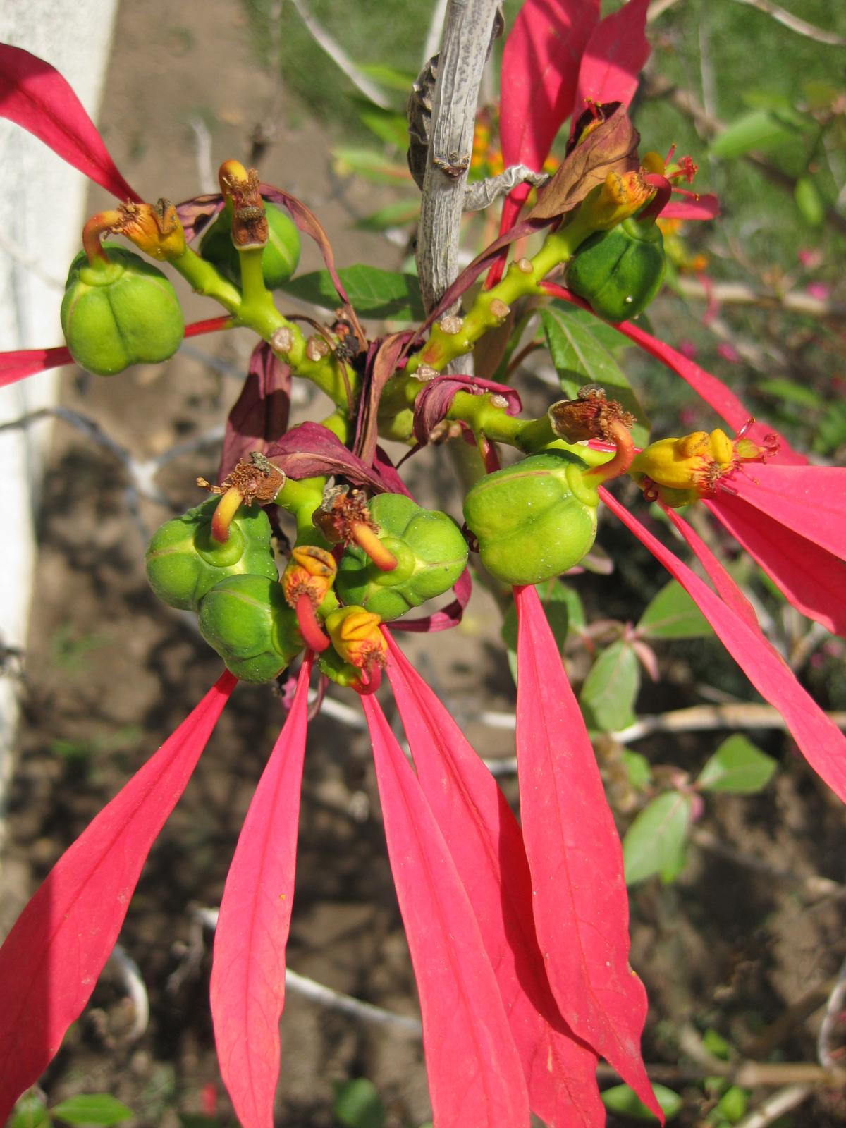 Photographed at Huntington Gardens (Los Angeles) in June